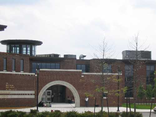 Gann Academy Taken in 2004